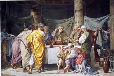 Alessandro franchi, frescos in the cathedral of prato